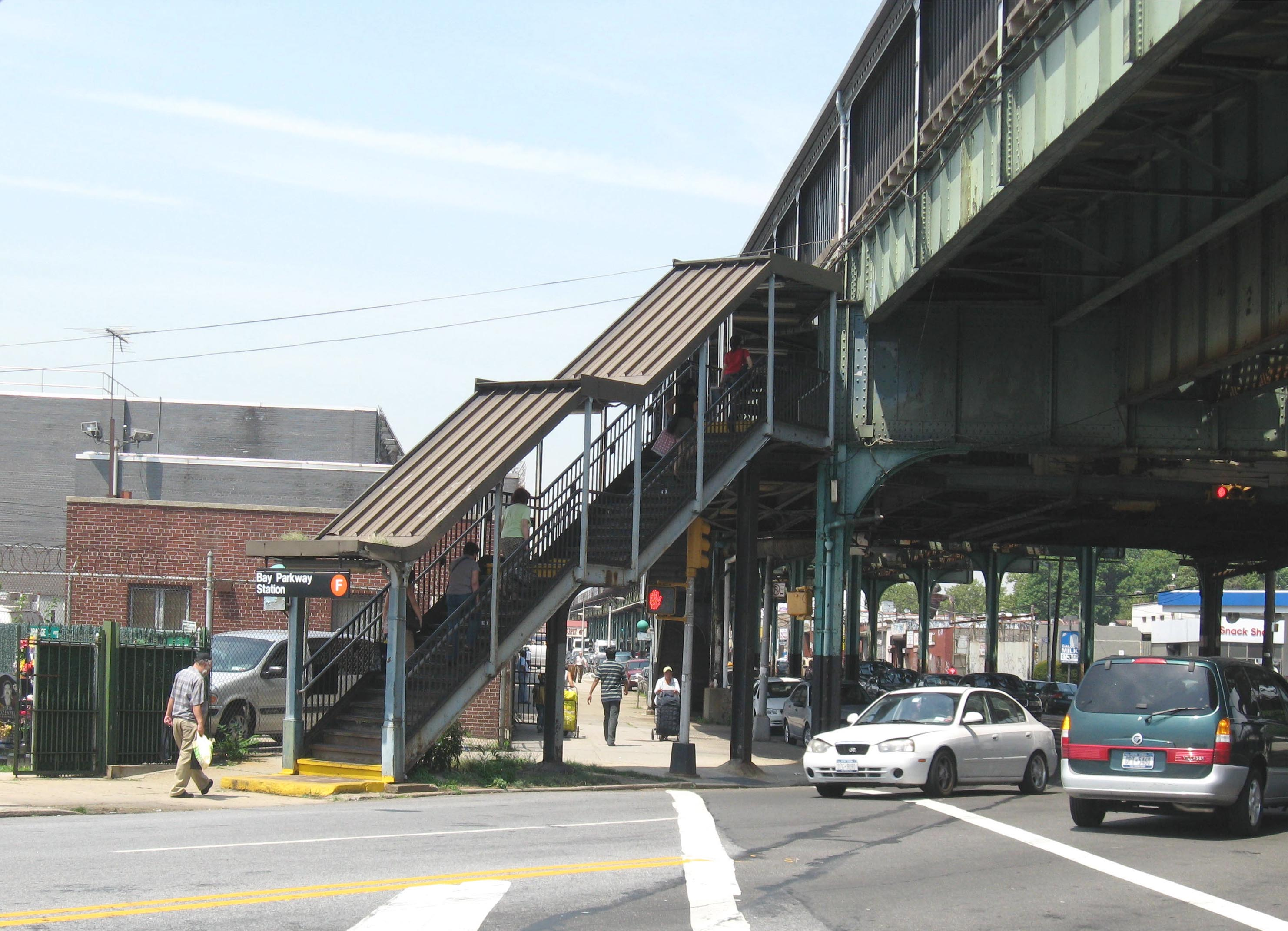 Looking north on a sunny midday July 17 2008 at southwestern street stair of Bay Parkway (IND Culver Line). ZIP 11204